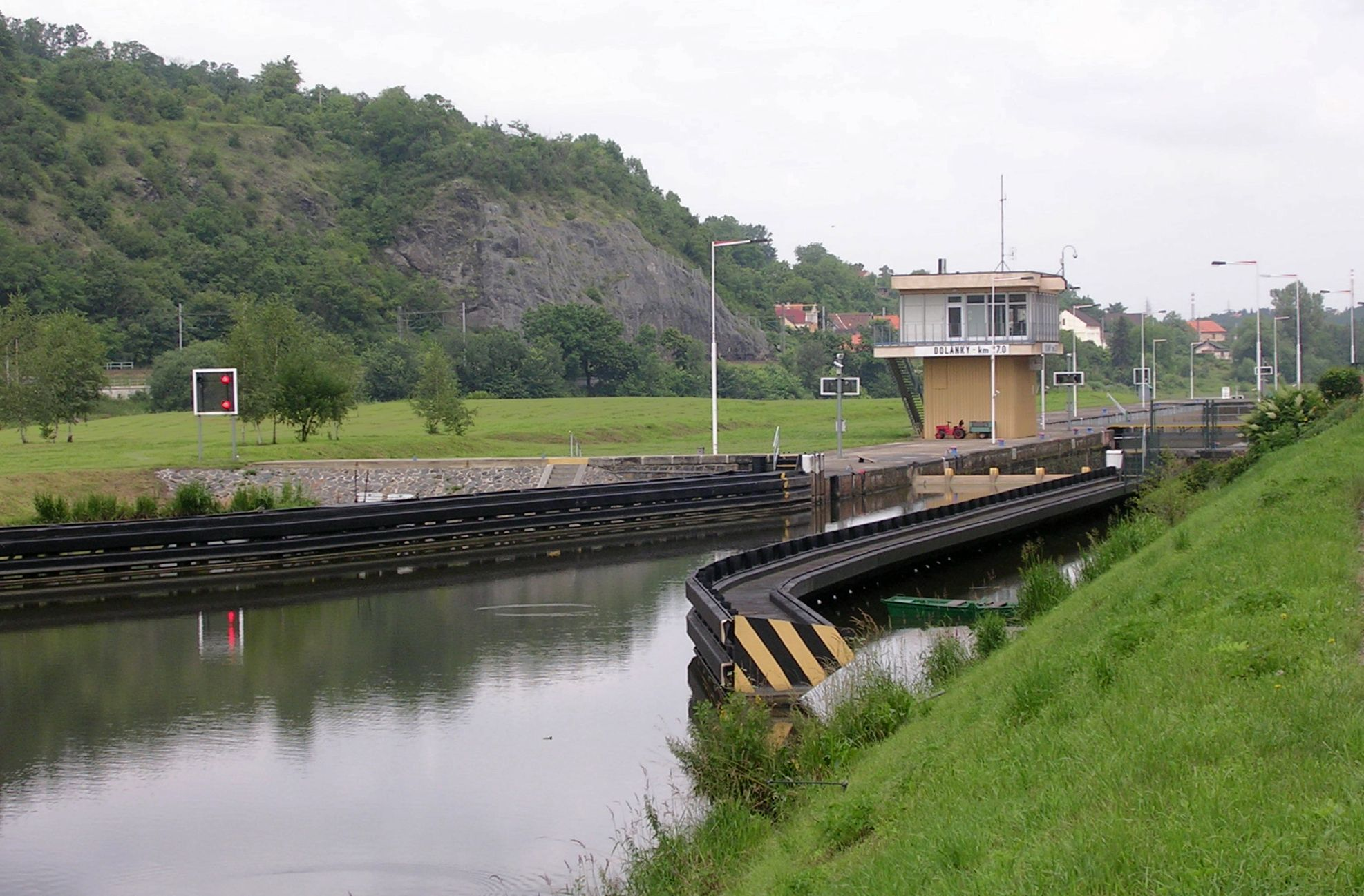 Dolany, Mělník District, Central Bohemian Region, the Czech Republic. A sluice at the Vltava River.